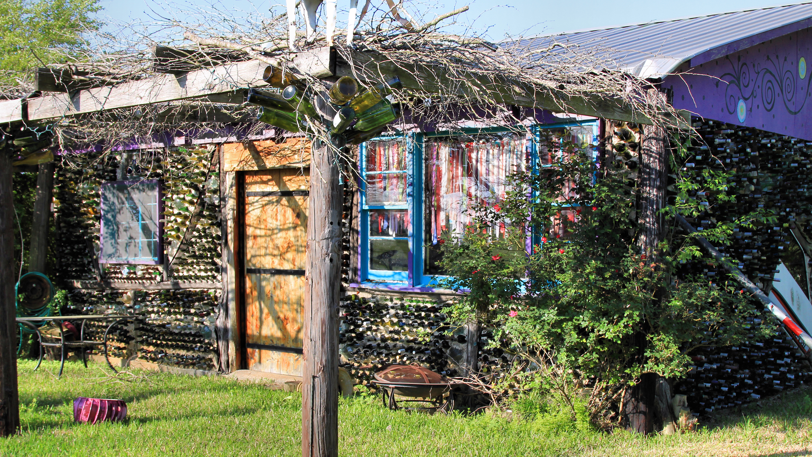 House built of wine bottles in Chriesman Texas, United States.